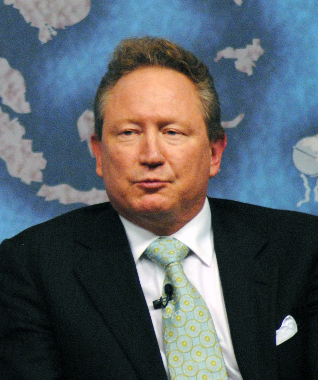 Ending Modern Slavery, 17 October 2013 cht.hm/15L02iY